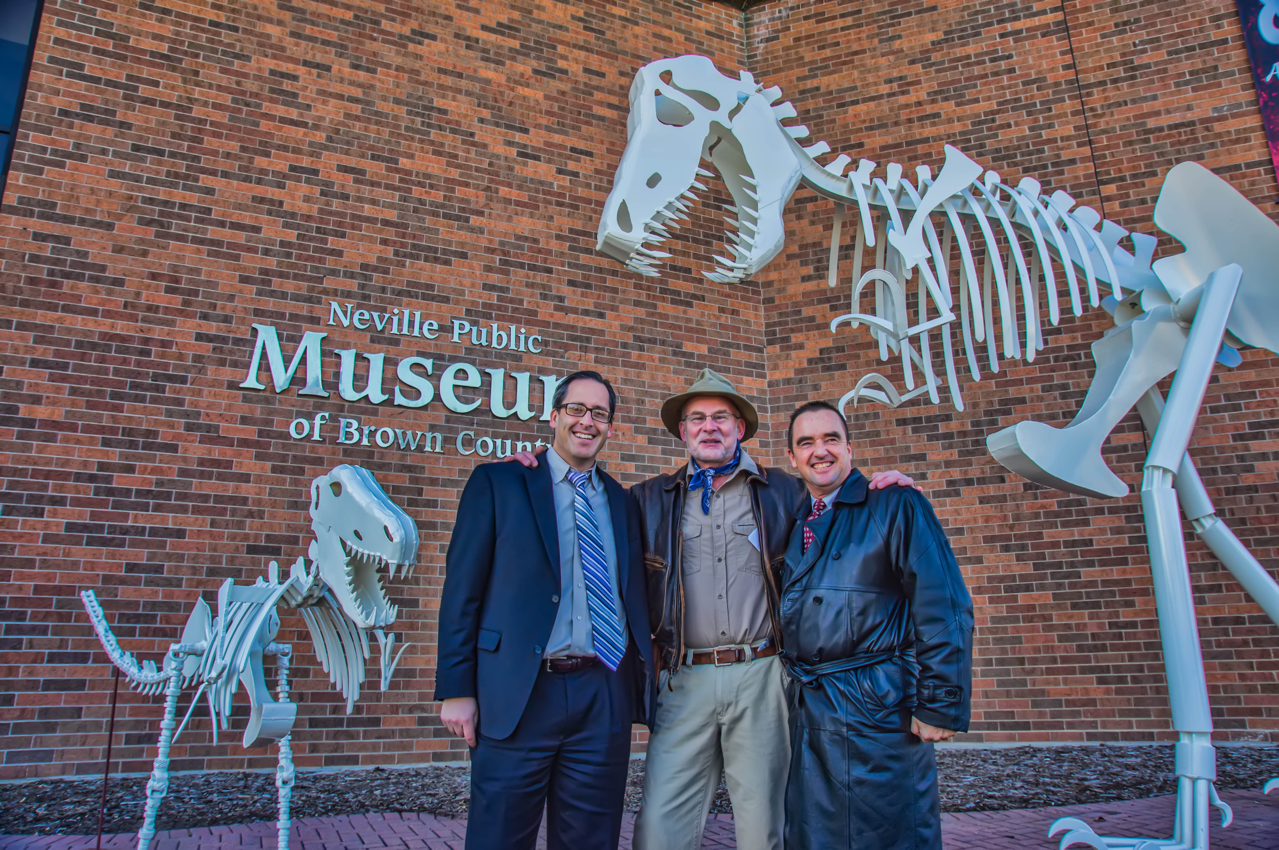 The County Executive, past Museum Director Rolf "Wisconsin" Johnson, and Mayor of Green Bay pose in front of the dinosaur sculpture at the museum.